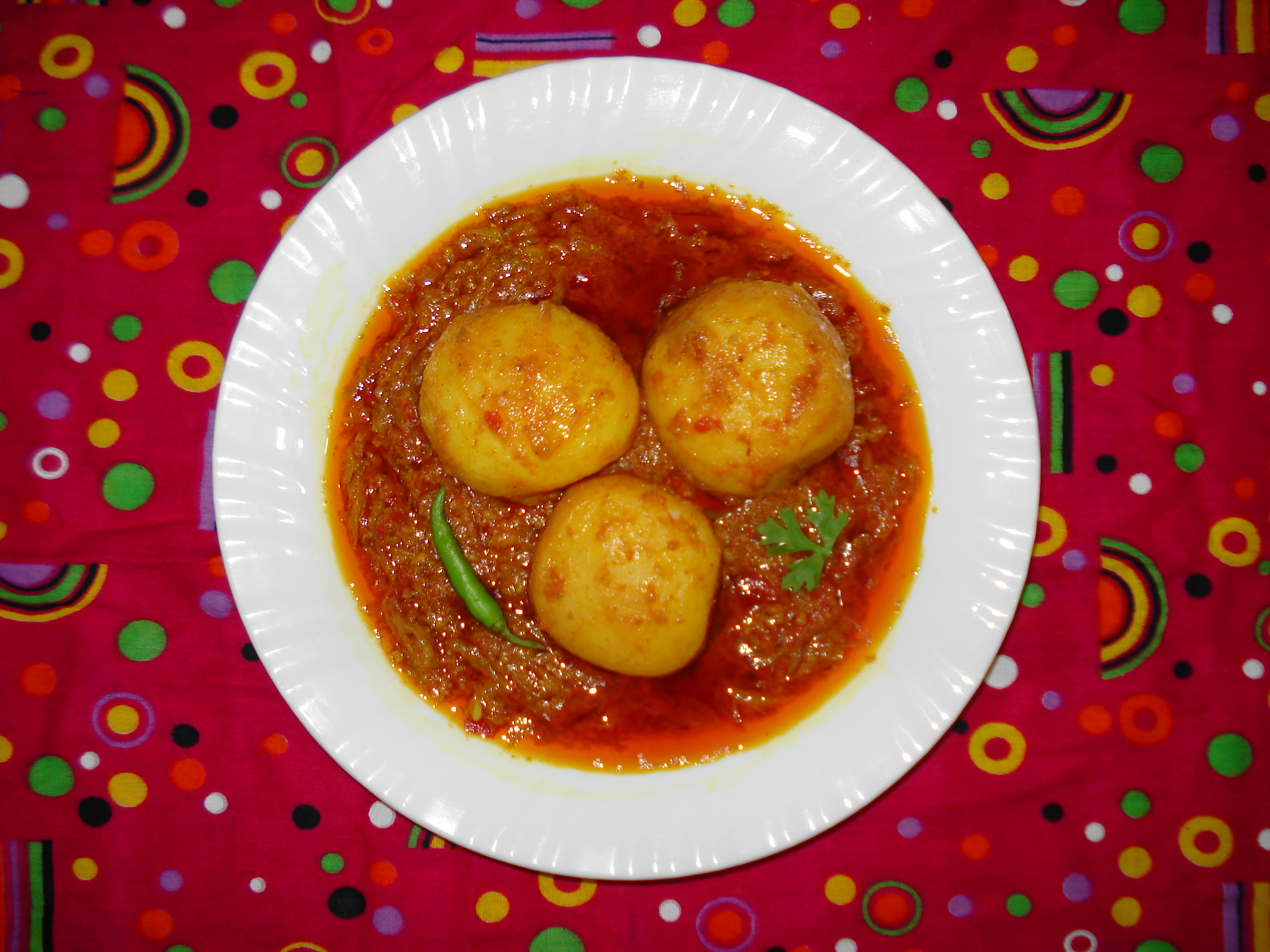 Dum Aloo, Dum Aaloo